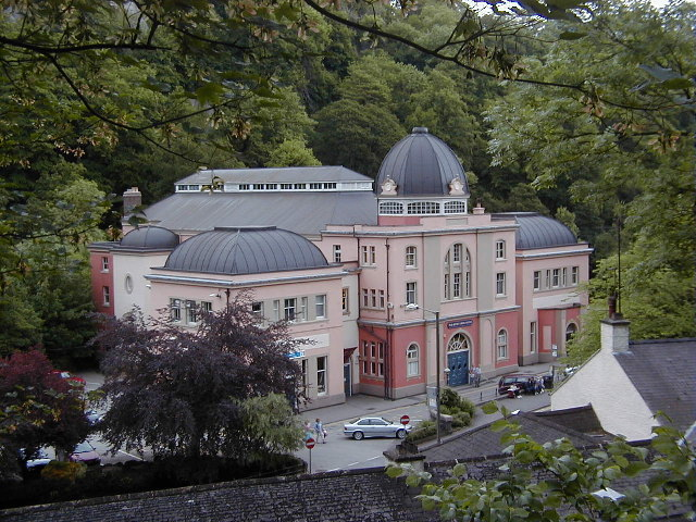 Matlock Mining Museum. Picture taken from the Heights of Abraham